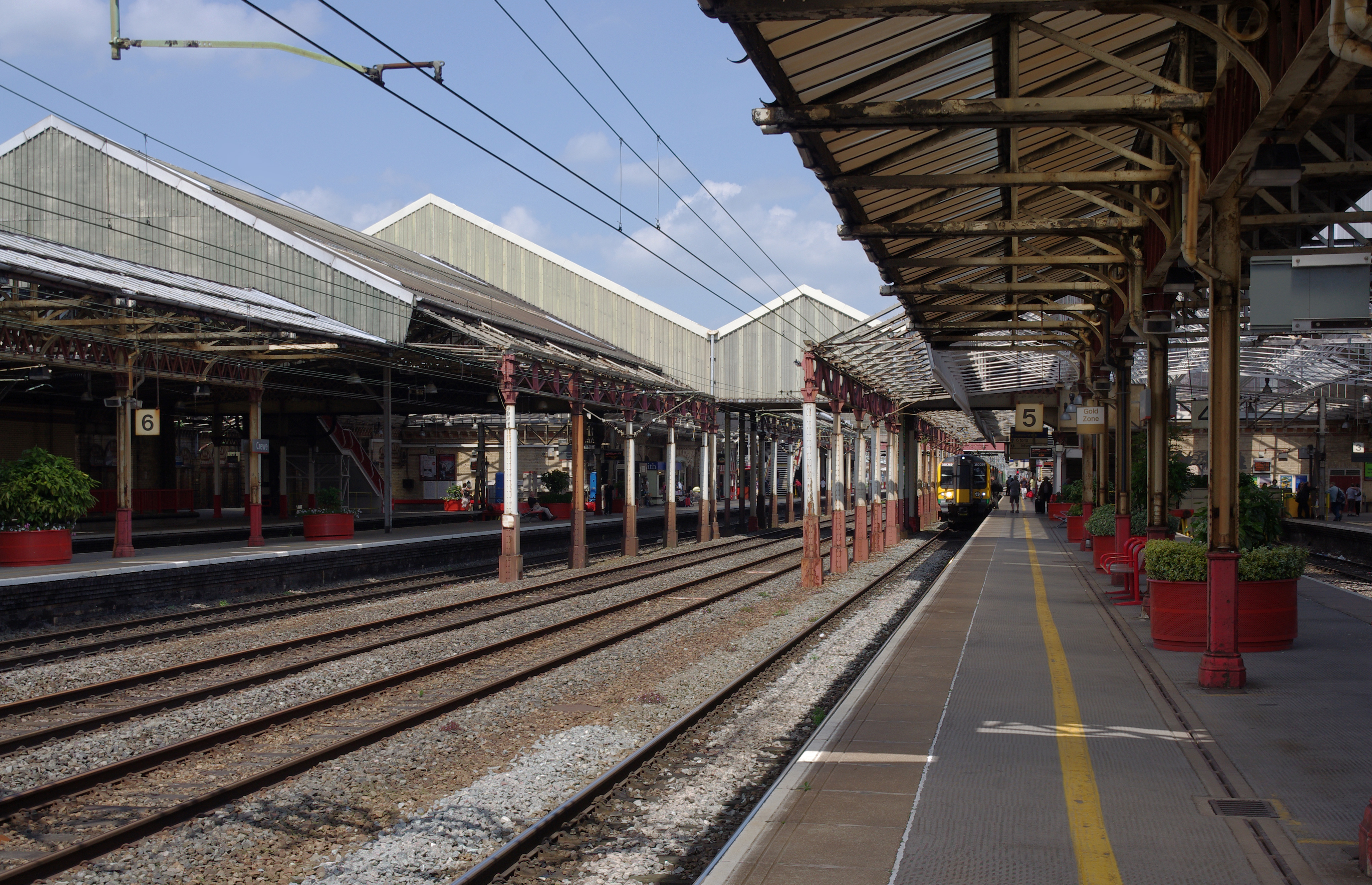 The south end of Crewe railway station. London Midland class 350 "Desiro" EMU 350259 is visible, operating a Liverpool-Birmingham service.